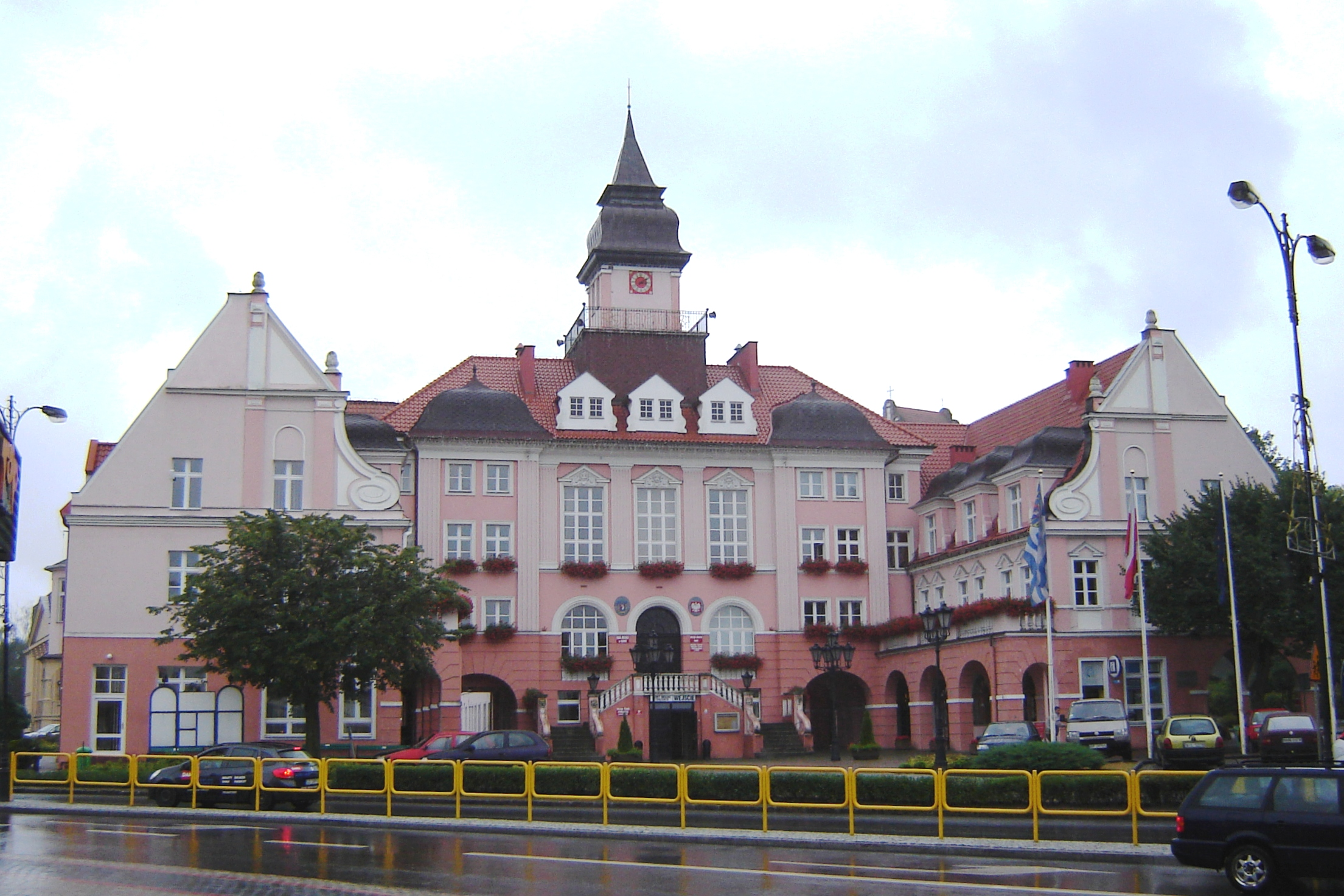 Town hall in Iława, Poland